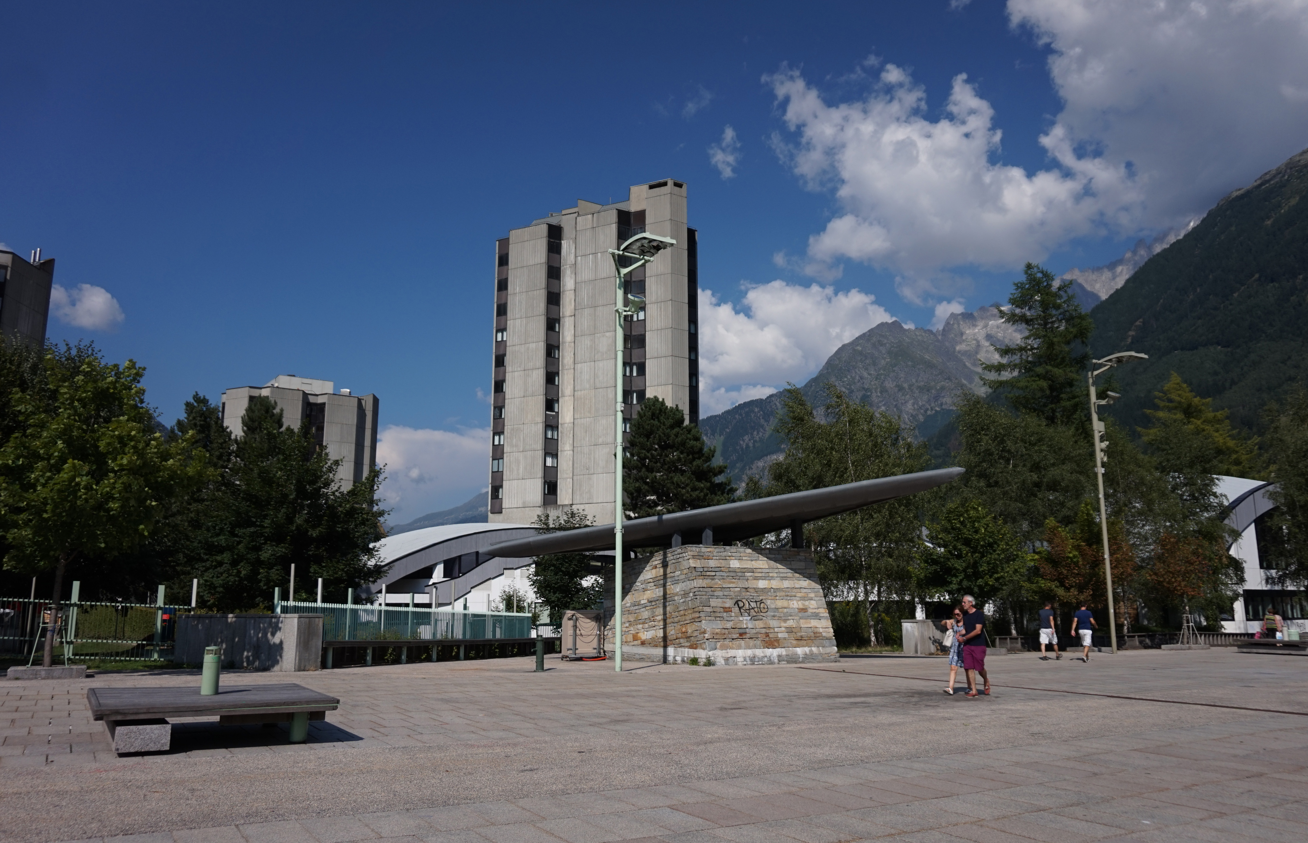 Place du Mont Blanc in Chamonix, France. This photograph was taken with a Sony Alpha a5000.